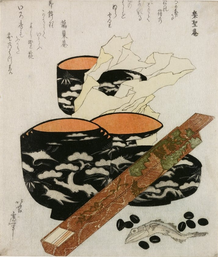 shikishiban surimono by Hokusai, still life with cups and two poems, c. 1820